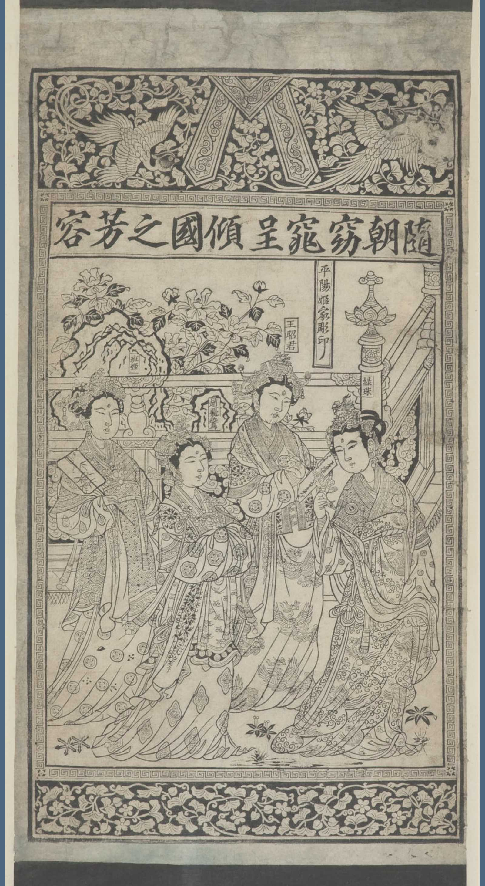 As named by the inscriptions near the figures, from left to right, this print depicts Ban Ji (班姫), Zhao Feiyan (趙飛燕), Wang Zhaojun (王昭君), and Lüzhu (緑珠).